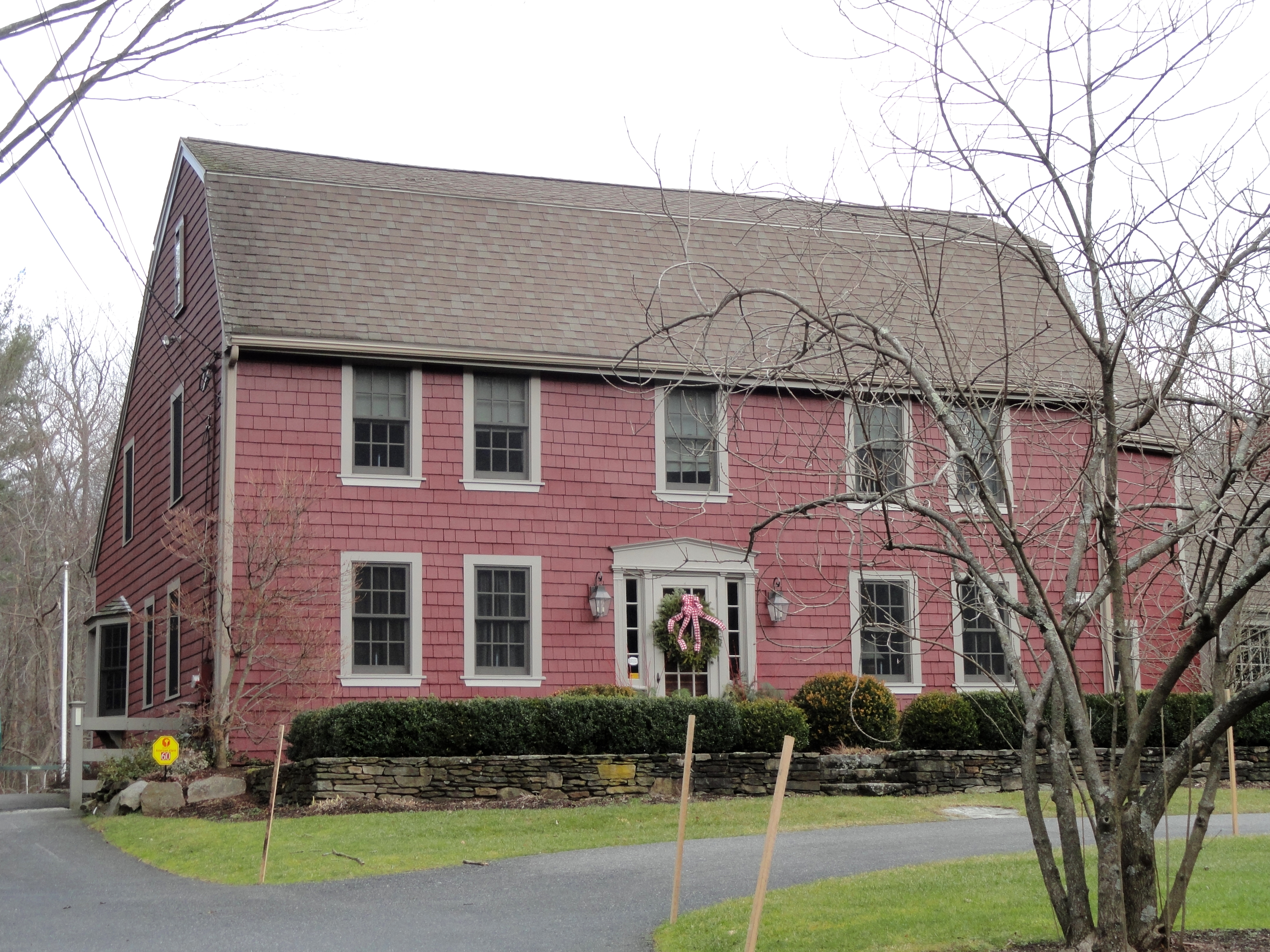 Historic house in Sherborn, Massachusetts, USA. This house is listed on the National Register of Historic Places.